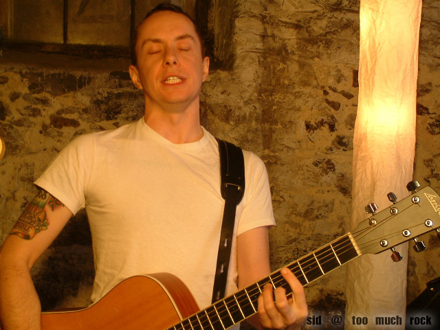 An image of Morgan Coe of Bread and Roses taken at a house show on Wednesday January 28th, 2004 in Allston, MA. Uploaded per request at Wikipedia:Images for upload.